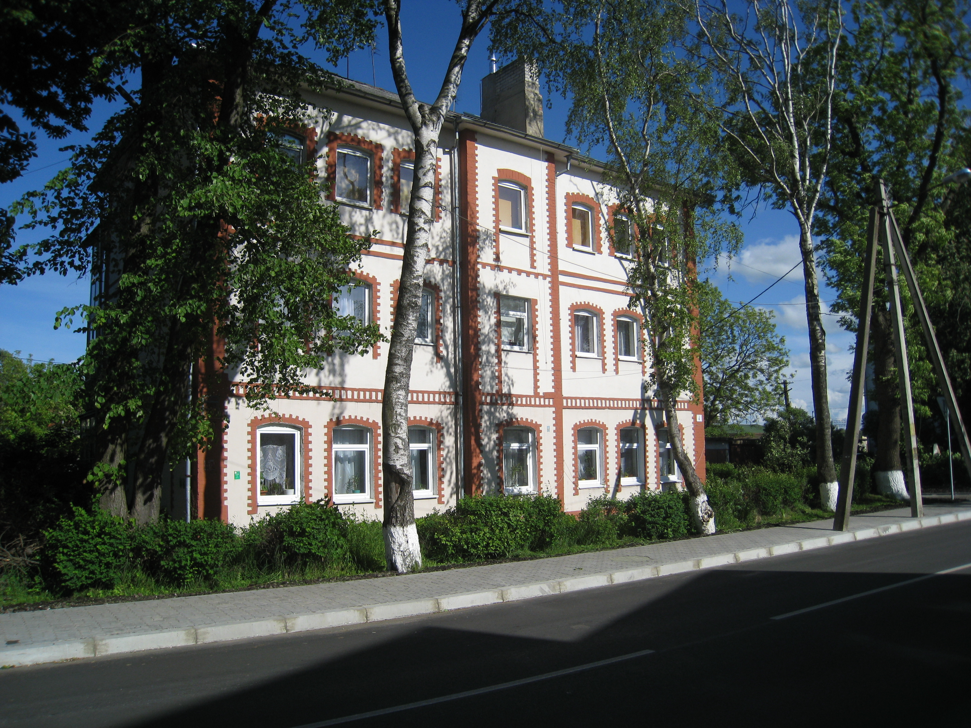 building in Turgeneva street